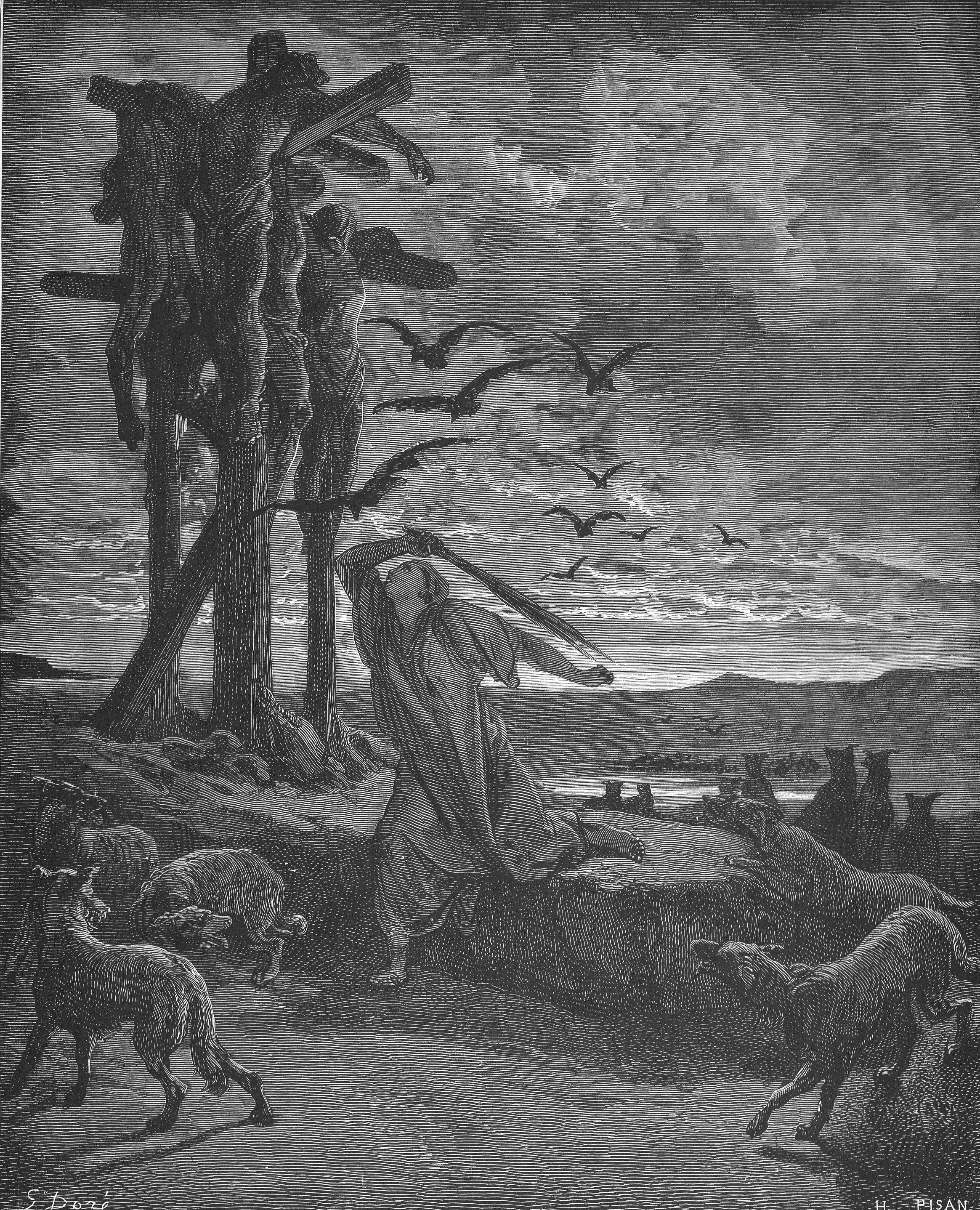 Rizpah’s Kindness toward the Dead (2Sam. 21:8-14)